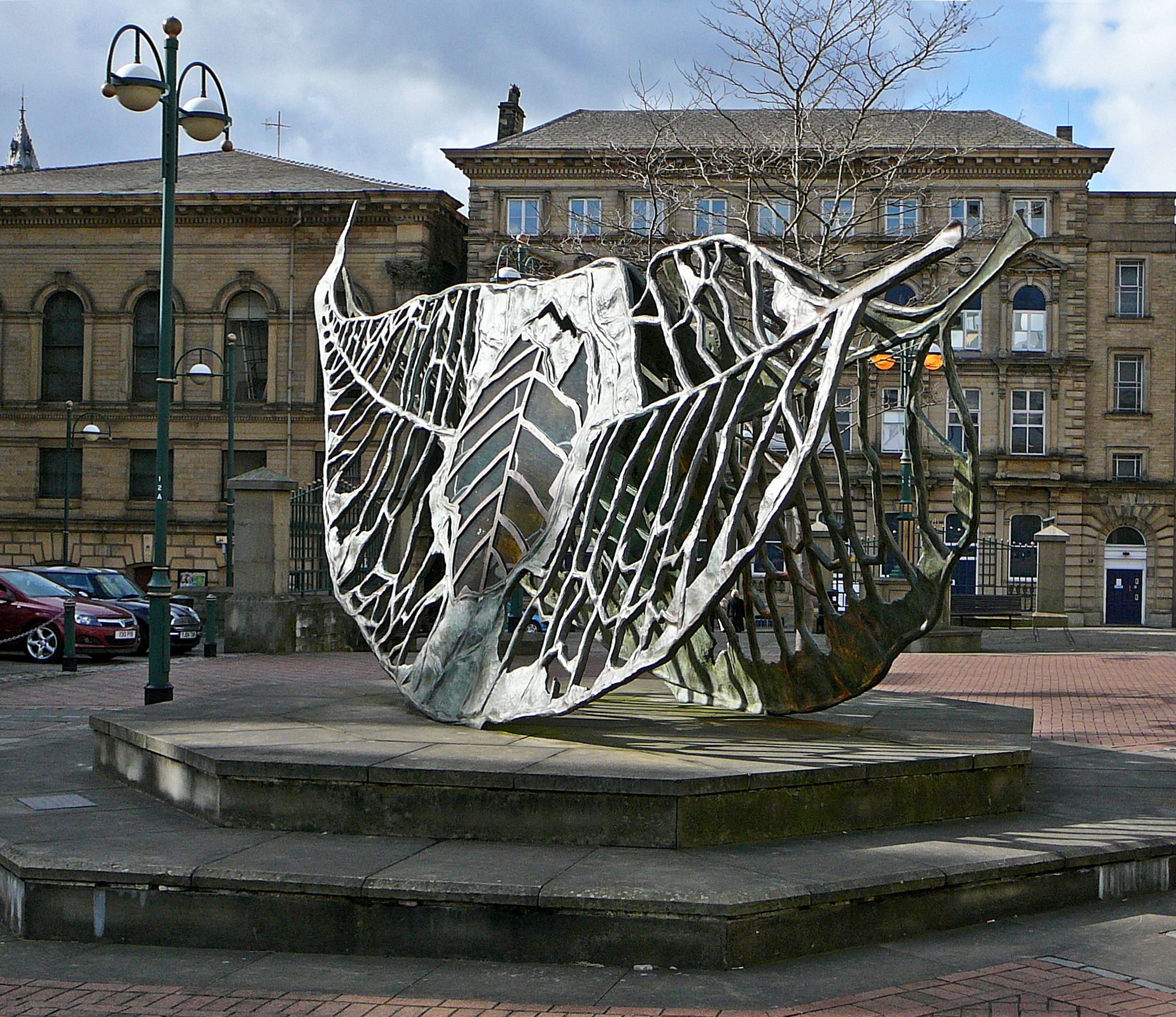 Amber Hiscott's "Quatrefoil for Delius" is installed in Exchange Square, Bradford. It was unveiled on 25 November 1993. The sculpture is an interactive work of art; Hiscott intended the viewer "not just to look, but also to walk through the 20 foot long tunnel created by the meeting of the two leaves."[1]